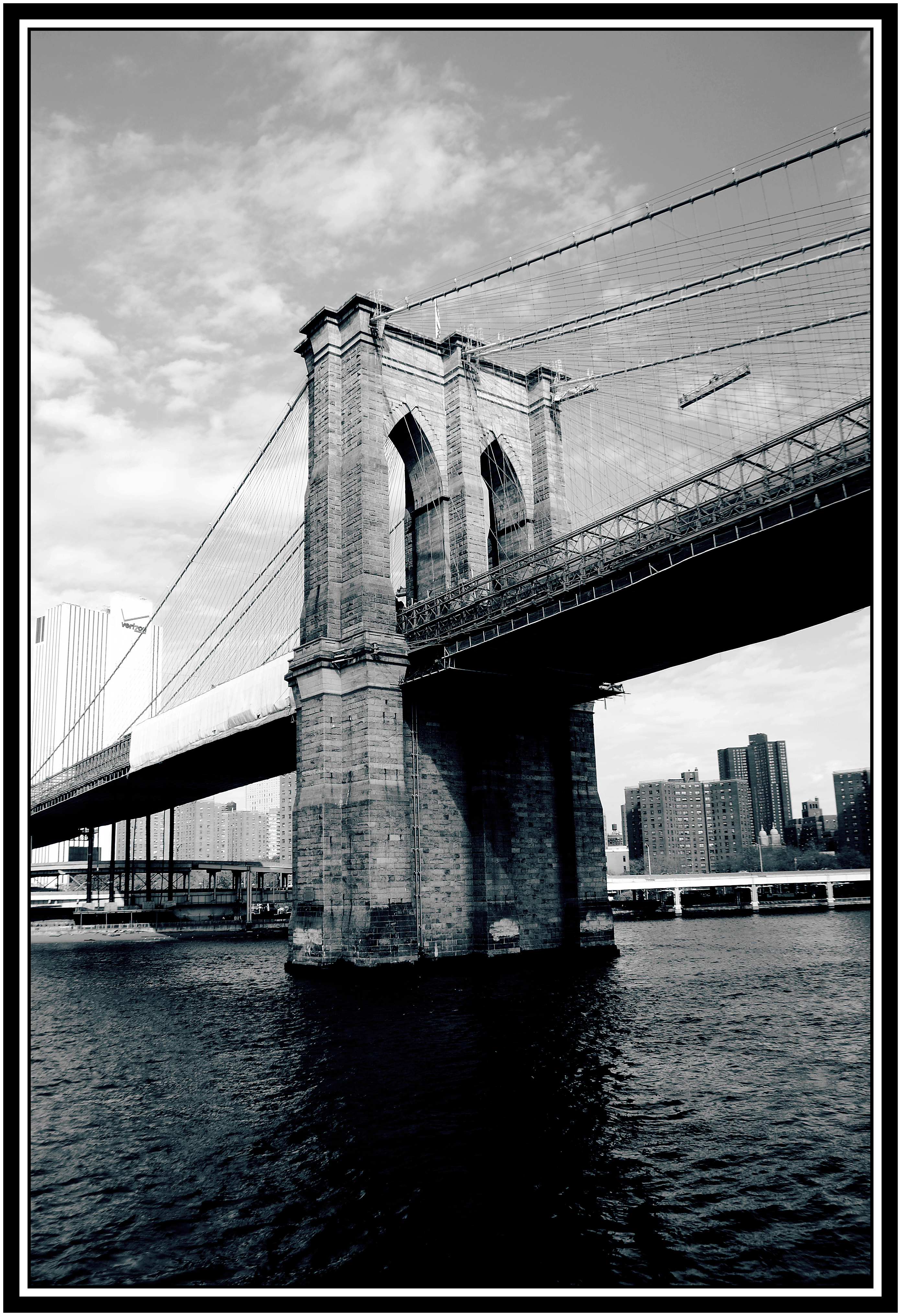 Brooklyn Bridge connecting Manhattan and Brooklyn